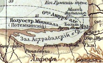 map from Marx's Atlas (Russia, 1905) fragment with Ashuradeh Islands (Little, Middle and Big), Miankala Peninsula has alternative Russian name Potyomkinsky